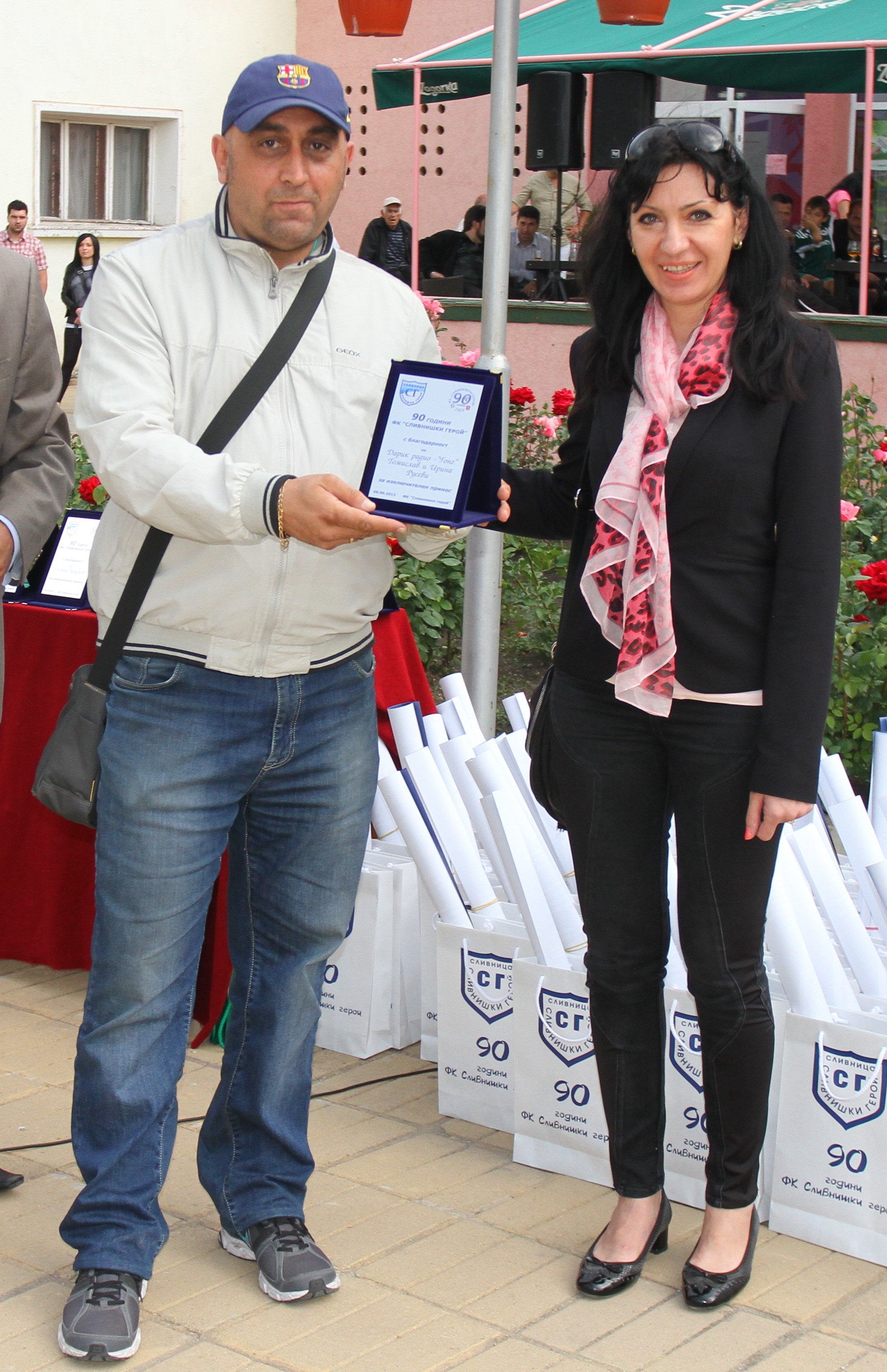 Tomislav Rusev - Bulgarian jurnalist